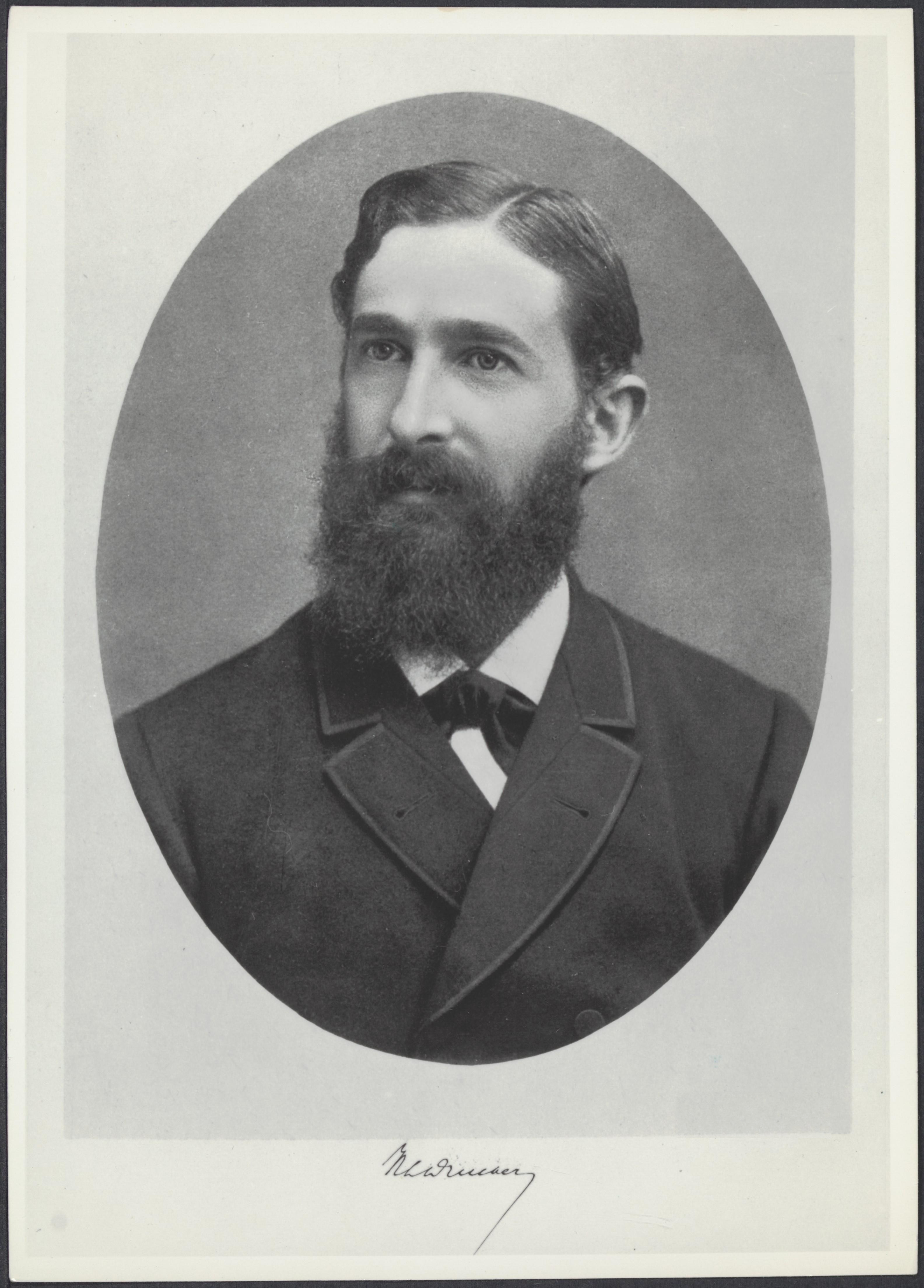 Photograph & autograph of Hendrik Lodewijk Drucker, Dutch Member of Parliament & Senate. Probably made in 1897